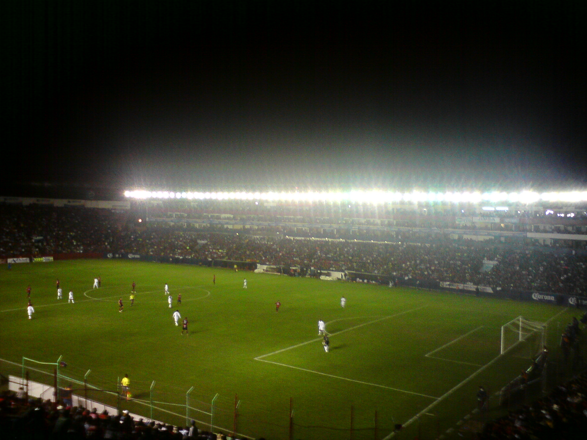 Team Irapuato FC in the semifinal against the sharks of the Veracruz in the stadium Sergio León Chávez.